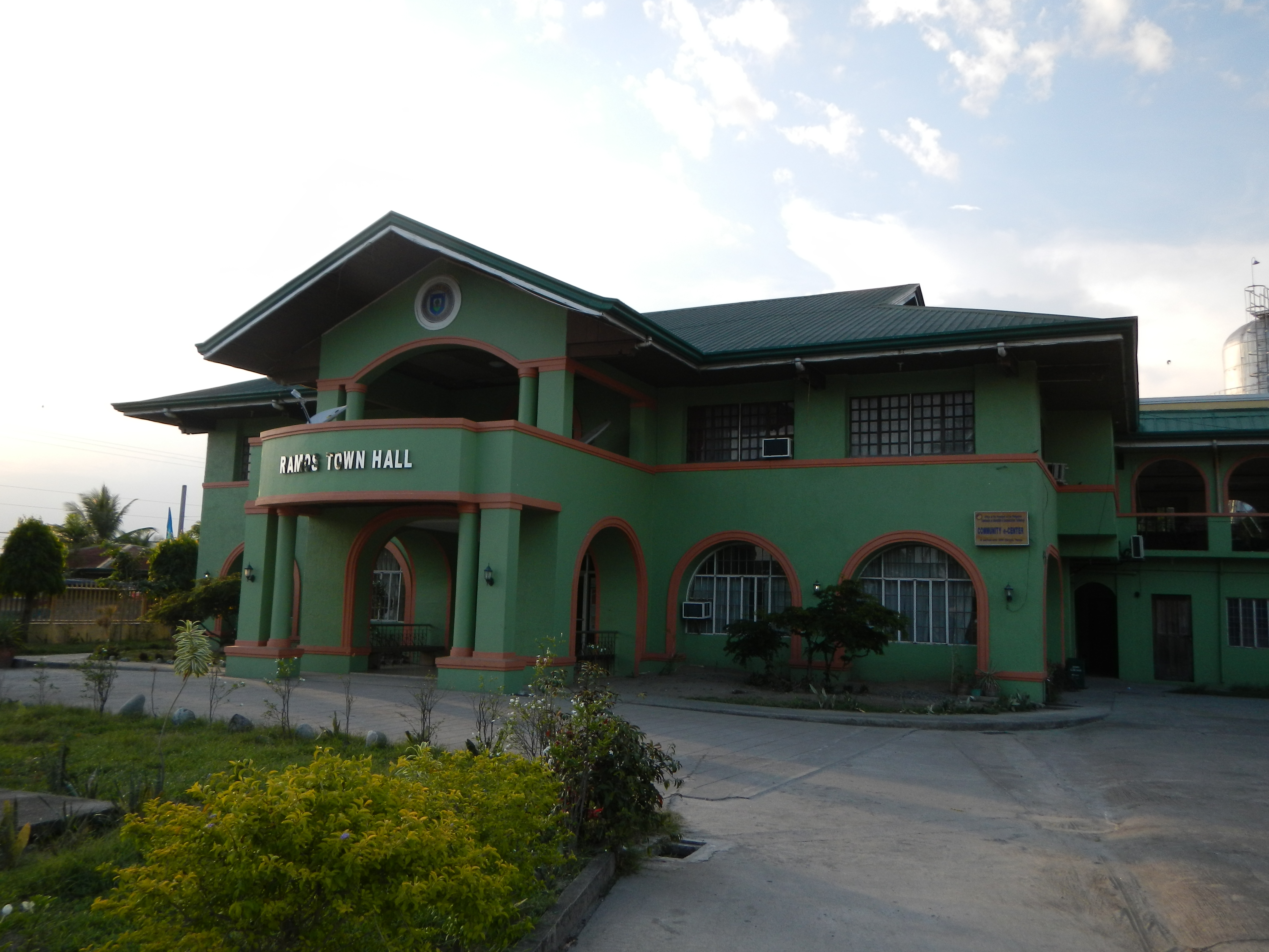 Ramos, Tarlac[1] is a fifth class municipality in the province of Tarlac, Philippines. According to the 2010 census, it has a population of 20,249 people. Ramos is politically subdivided into 9 barangays.[2] This place is situated in Tarlac, Region 3, Philippines, its geographical coordinates are 15° 39' 53" North, 120° 38' 26" East and its original name (with diacritics) is Ramos.[3] Land Area: 24.40 km² ZIP Code: 2311 [4] Coordinates: 15°40'49"N 120°37'48"E[5]During the Spanish occupation, when the town of Paniqui was still a part of the Province of Pangasinan, many people from the town Bayambang, Malasiqui and San Carlos came to this town to live and work. This migrant workers discovered a vast virgin area which was covered with thick forest, cogon grass, “talahib” and medicinal plants “Bani”. There were two distinct names of these plants, “BANI-TAO and BANI-NUANG” which were found abundantly along the banks of Inerangan Creek. Read More on its history:[6] .[7] Elected Officials[8]